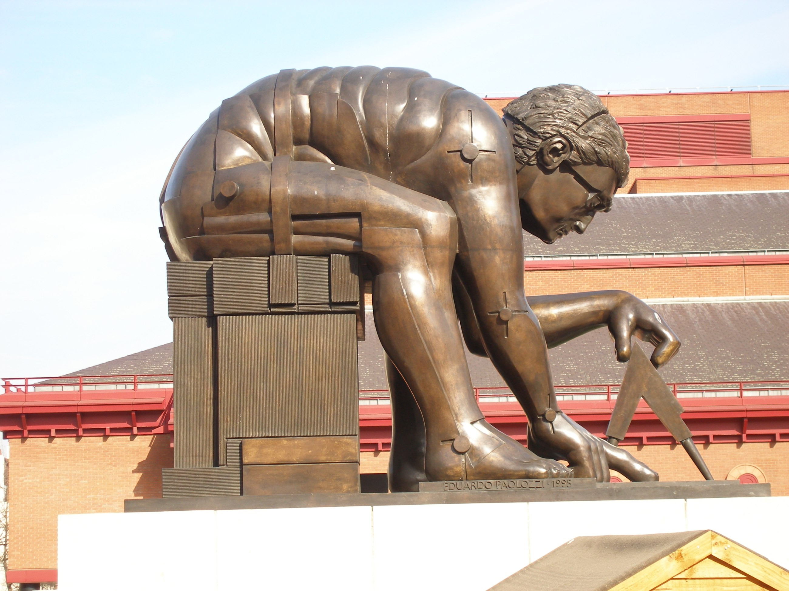 Statue of Newton (after Paolozzi) in the British Library courtyard (London).